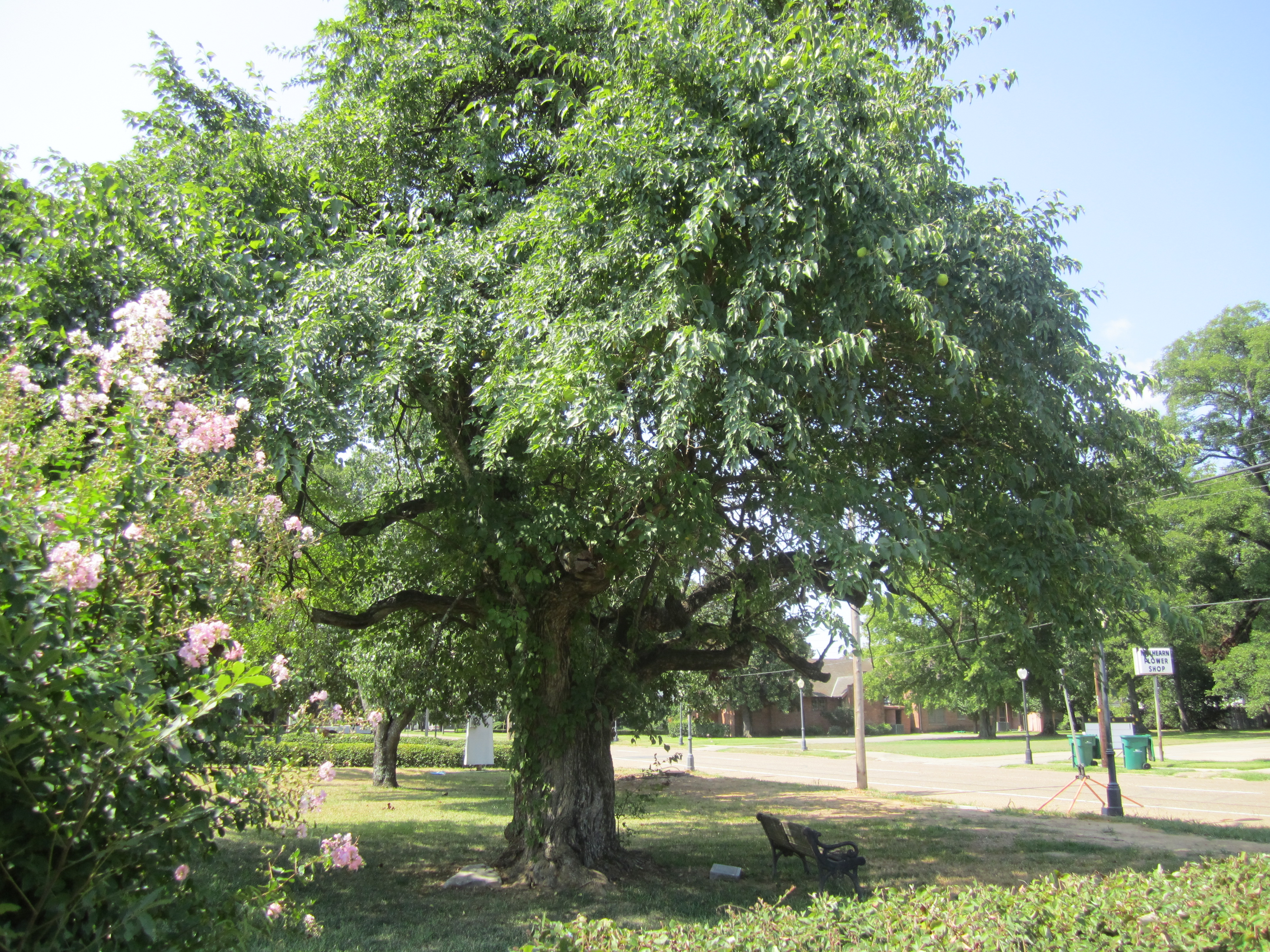 I took photo in Rayville, LA, with Canon camera.